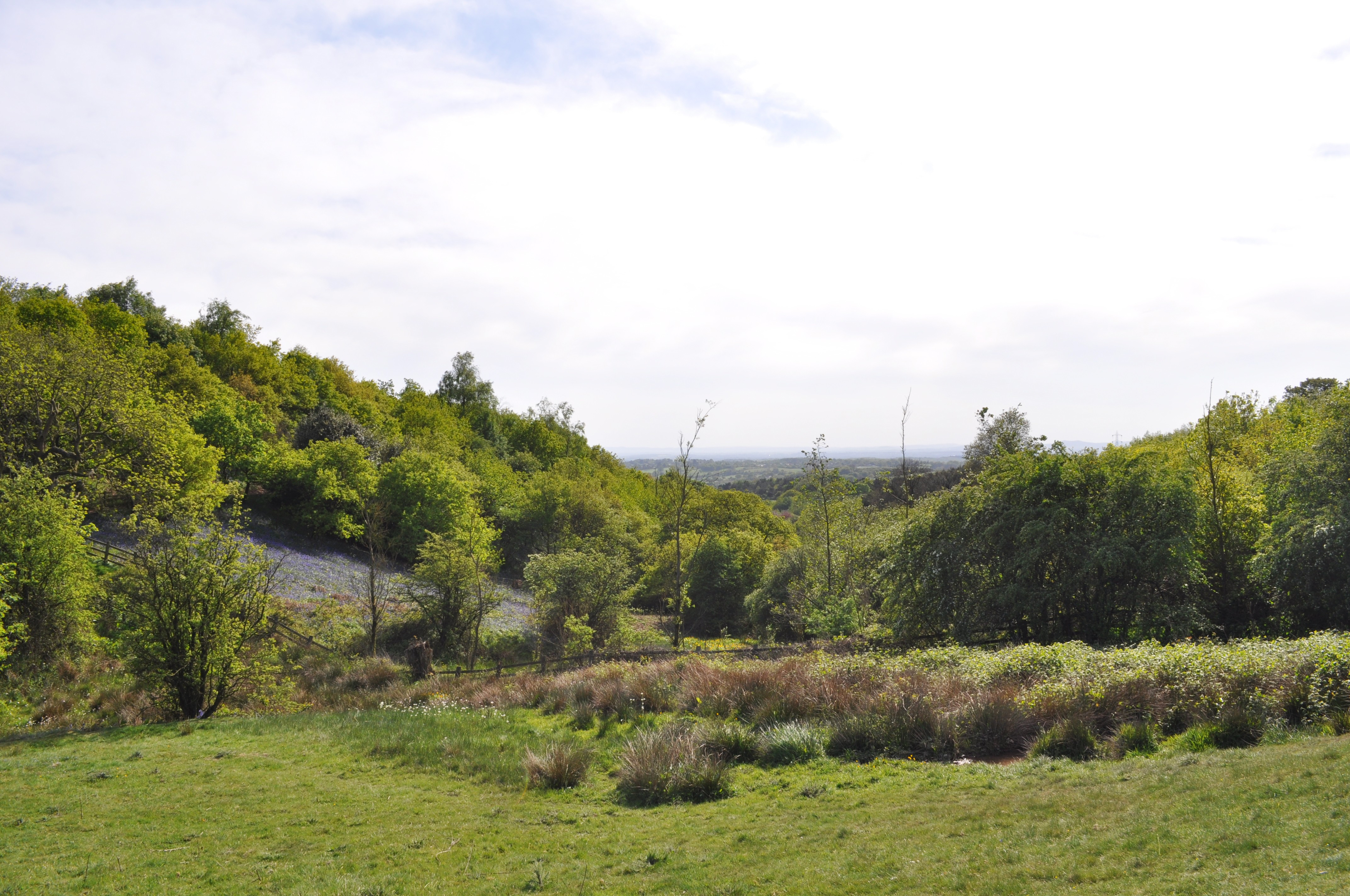 View of Waseley Hills Country Park, northern Worcesteshire, England